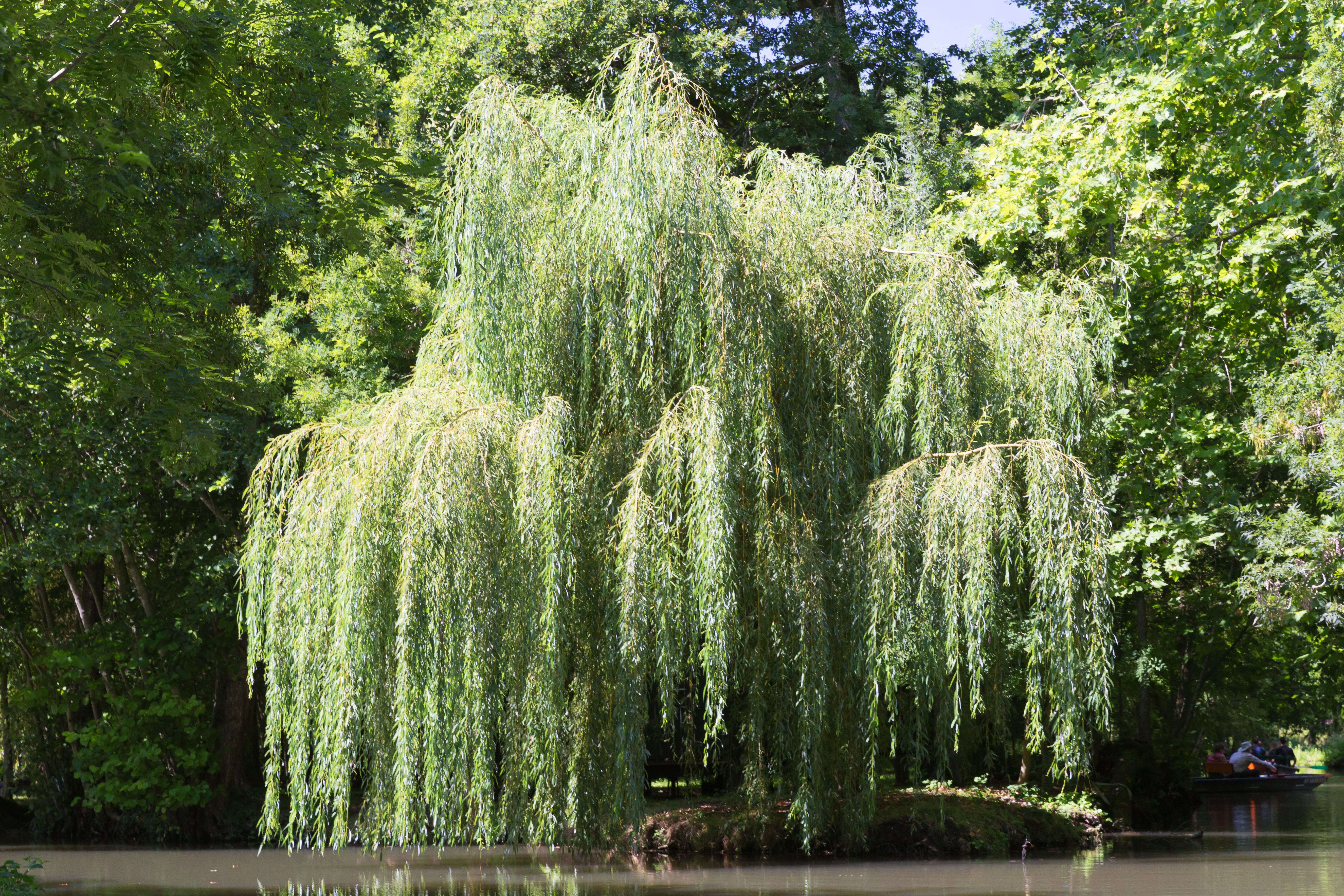 Salix babylonica (Babylon willow) in Sansais in the MArais Poitevin, France.